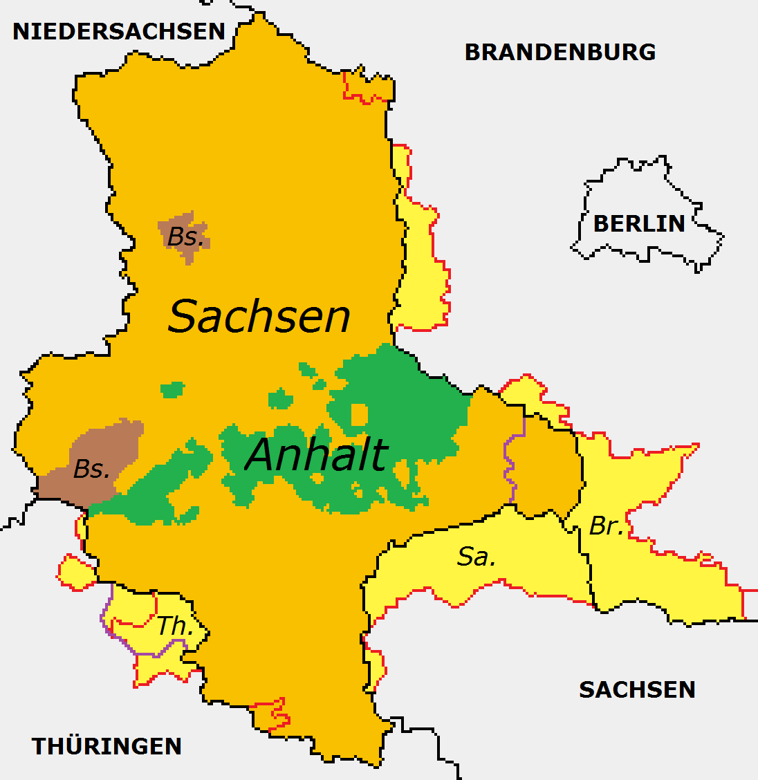 BORDERS black = current/today (BRD) purple = Districts Halle+Magdeburg (GDR) red = Saxony-Anhalt (1947-1952, GDR) REGIONS amber/yellow = Saxonygreen = Anhaltbrown = Braunschweig (Brunswik)